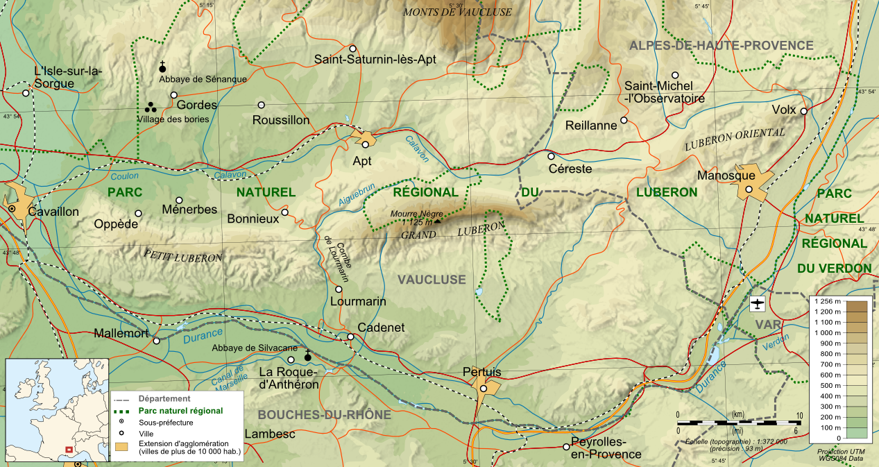 Topographic and administrative map in French of Luberon